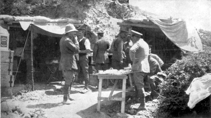 The first headquarters of General William Throsby Bridges, commander of the Australian 1st Division, at Anzac, 3 May 1915, during the Battle of Gallipoli. AWM caption : Gallipoli Peninsula, Turkey. 3 May 1915. At General Bridges' first Headquarters at Anzac, during lunch. The officers in the photograph, reading from left to right, are: General Bridges, (in dugout) Lieutenant Riches Private Wicks (Batman to General Bridges) Captain Foster (Aide-de-Camp) Major Gellibrand Colonel Howse Major Blamey Colonel White Major Wagstaff The position was exposed to shrapnel fire and Major Gellibrand was wounded there.